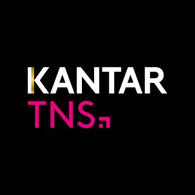 Kantar TNS Logo